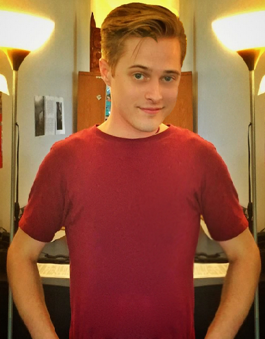 Lucas Grabeel meet fans during in the Switched at Birth backstages